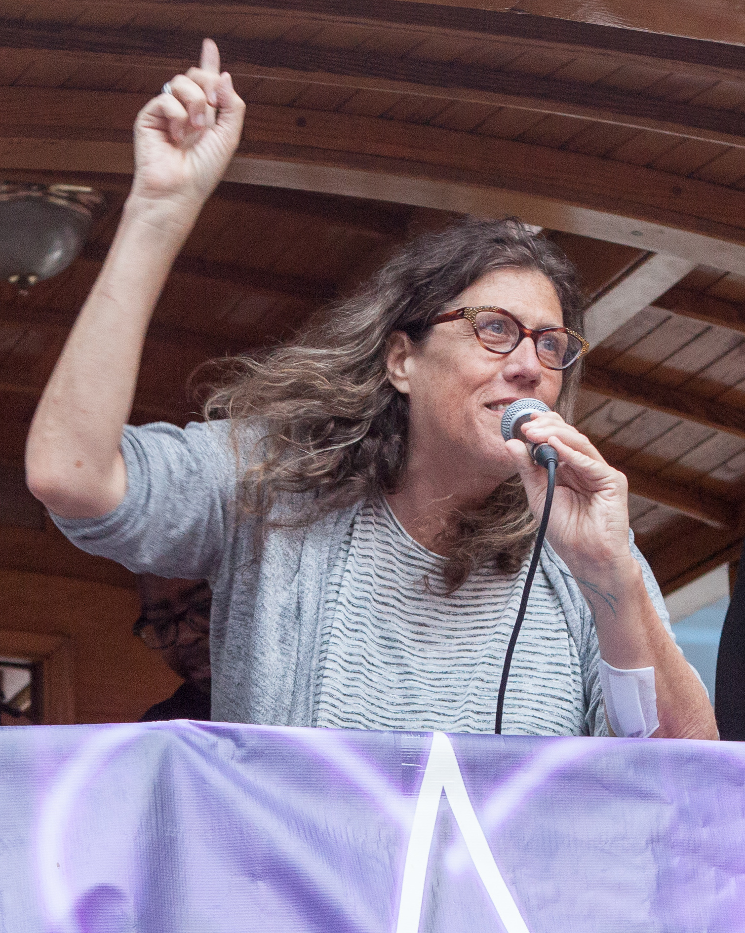 Susan Stryker speaks at Trans March San Francisco 2017.